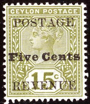 Five Cents on 15 c, Ceylon issue 1890. SG233 olive-green.